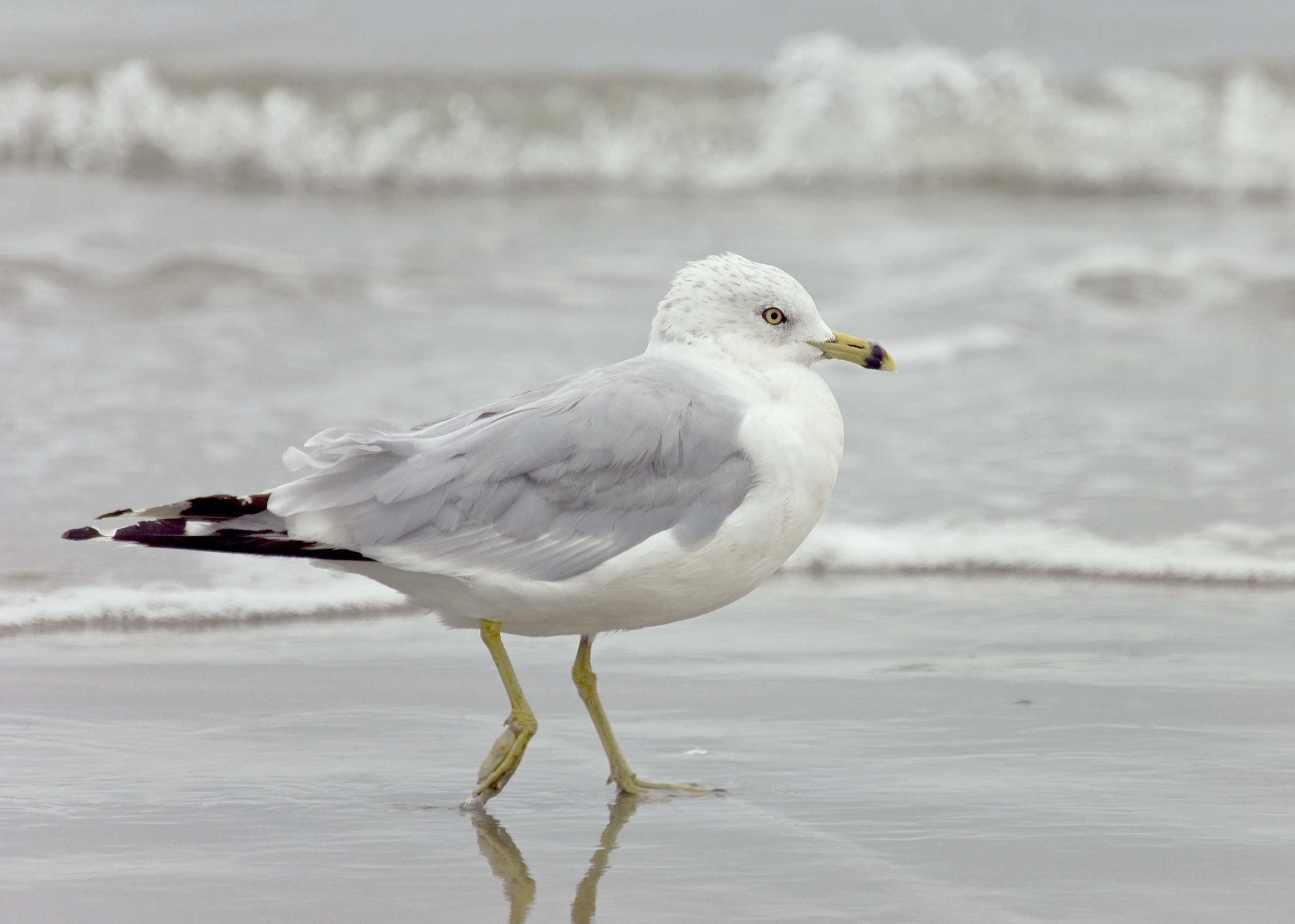 A ring billed Gull, color corrected of Image:Seagull eb 1.jpg